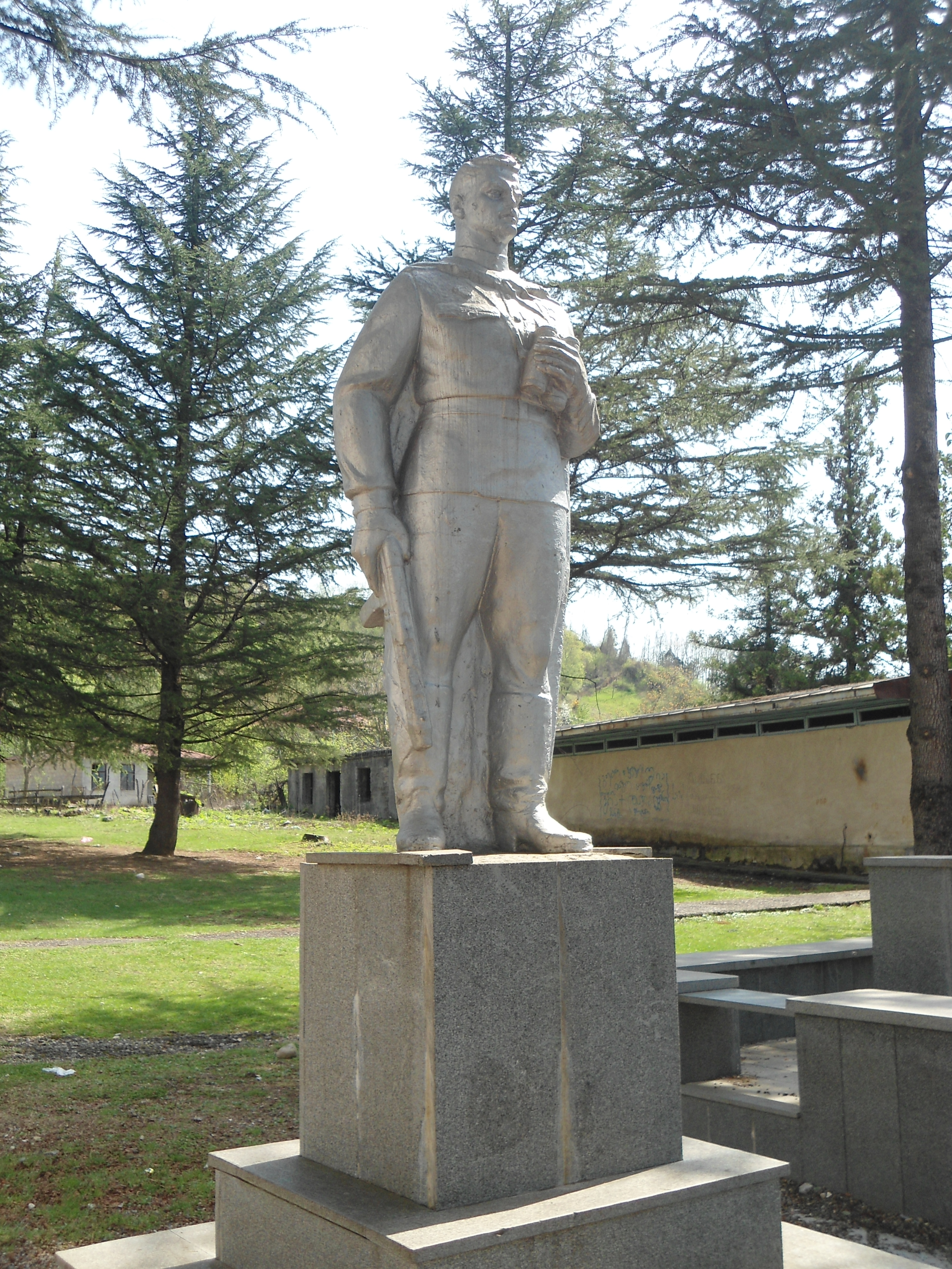 მელიტონ ქანთარია - ჯვარი, სამეგრელო, საქართველო - 6 აპრილი 2013 Мелитон Кантария - Джвари, Самегрело, Грузия - 6 апреля 2013 This photo was taken on the grounds of School #3 in Jvari in the Republic of Georgia. It depicts the memorial standing next to the grave of Meliton Kantaria, who was the Soviet soldier that planted the Red Flag atop the Reichstag after the defeat of Nazi Germany.